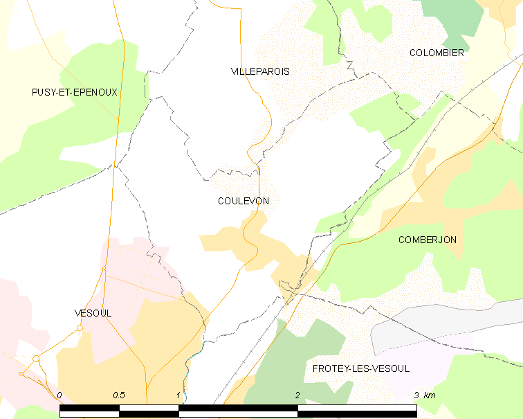 Map of French municipality